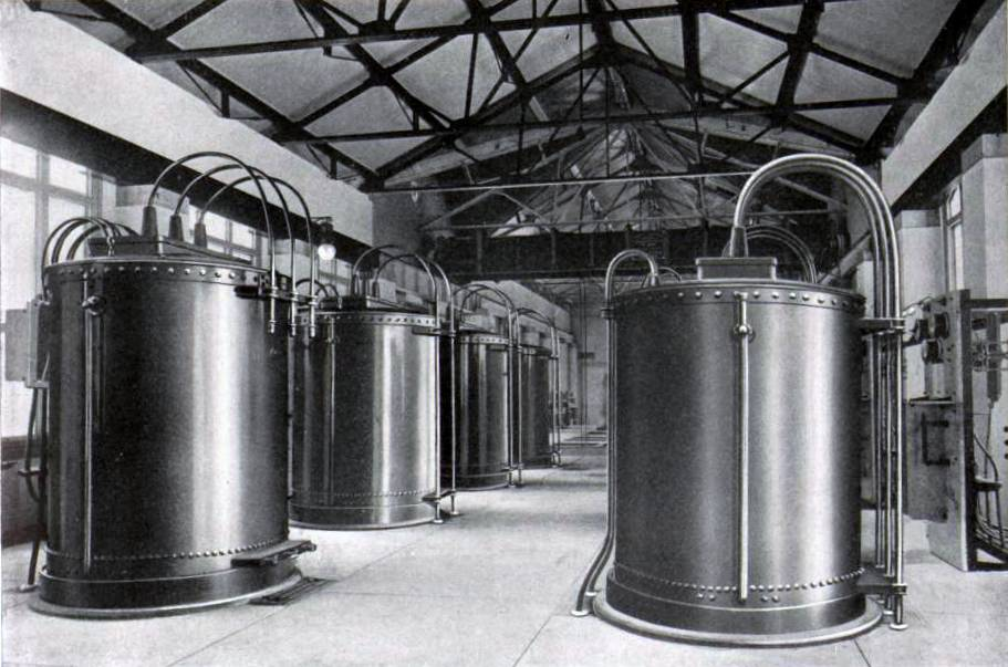 The eight of ten 1,875 kW transformers at the Adams Power Plant Transformer House, the first large-scale, alternating current electric generating plant in the world, built in 1895.